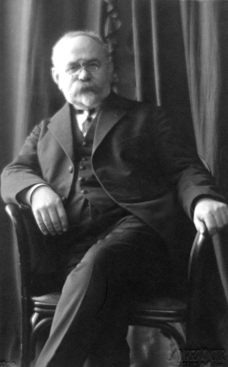 Czech composer Josef Omáčka (1869–1939)